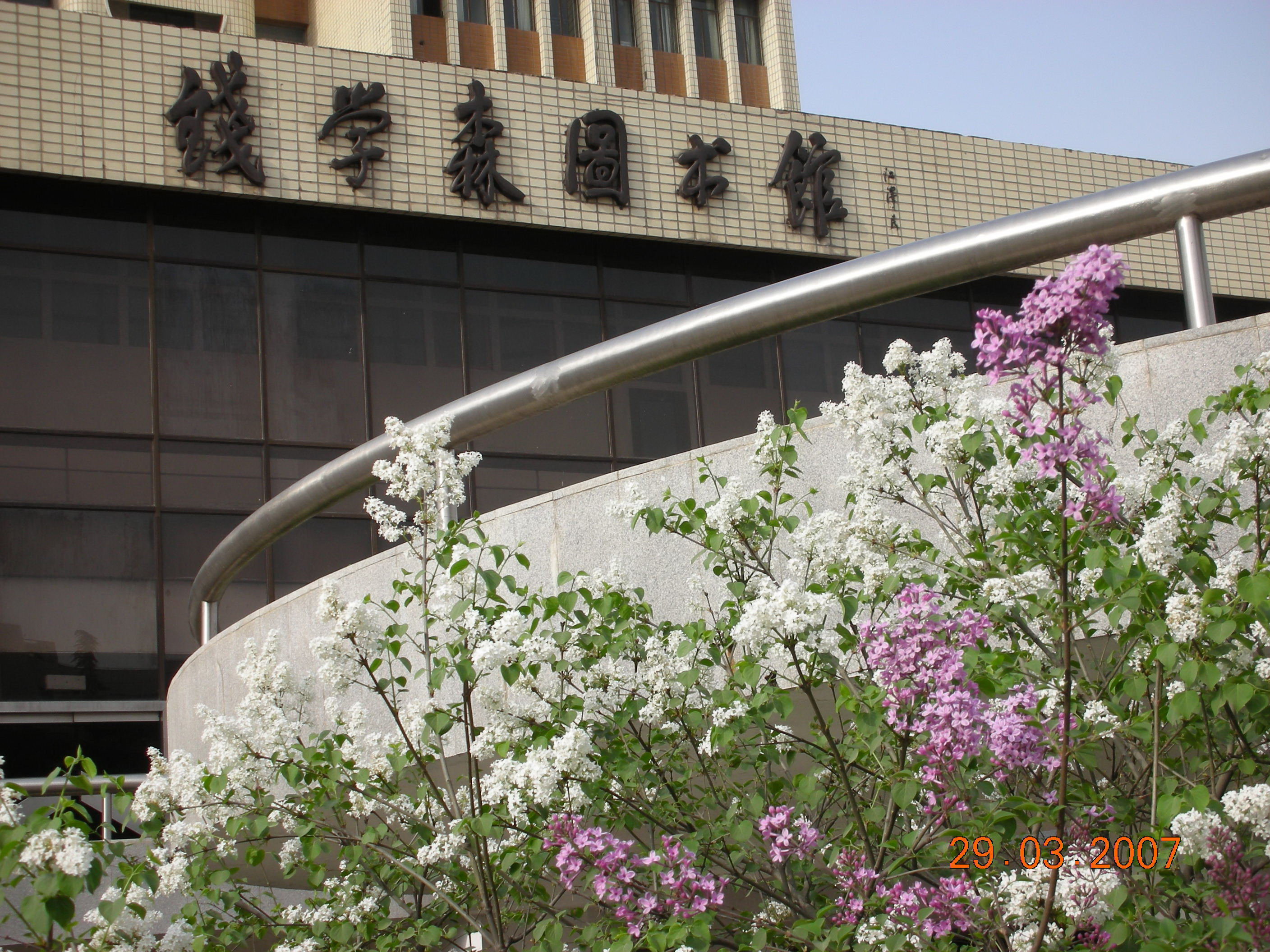 It's a photo of Qian Xuesen Library,XJTU.